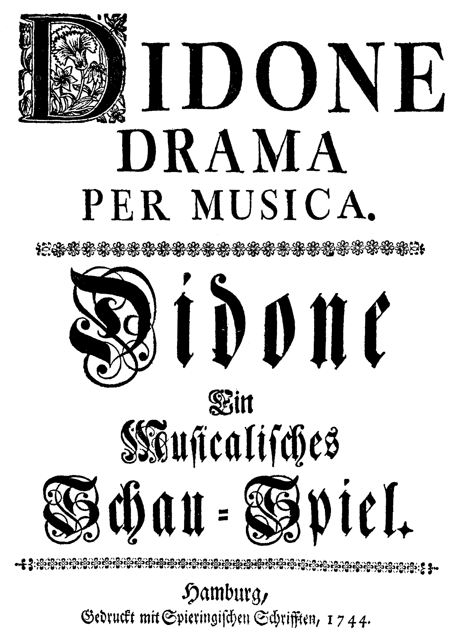 Paolo Scalabrini - Didone abbandonata - titlepage of the libretto - Hamburg 1744